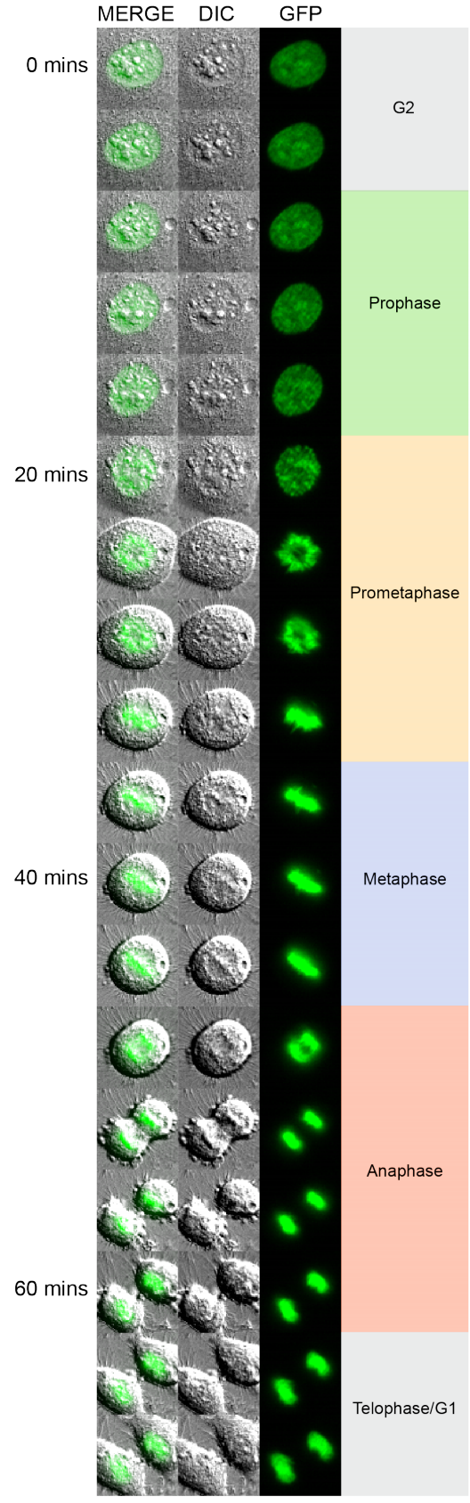 Example of a transgenic HeLa cell expressing H2B-GFP going from G2 through to the end of mitosis. DIC and GFP images are shown every 4 minutes. The phases and designated colour schemes are shown on the right. GFP-H2B images were used to determine the phase of mitosis according to the following criteria: prophase cells contain condensed chromosomes surrounded by an intact nuclear envelope; prometaphase starts with nuclear envelope breakdown; metaphase is when chromosomes align to form the metaphase plate; anaphase starts when the chromosomes begin to separate; telophase commences when chromosomes de-condense.